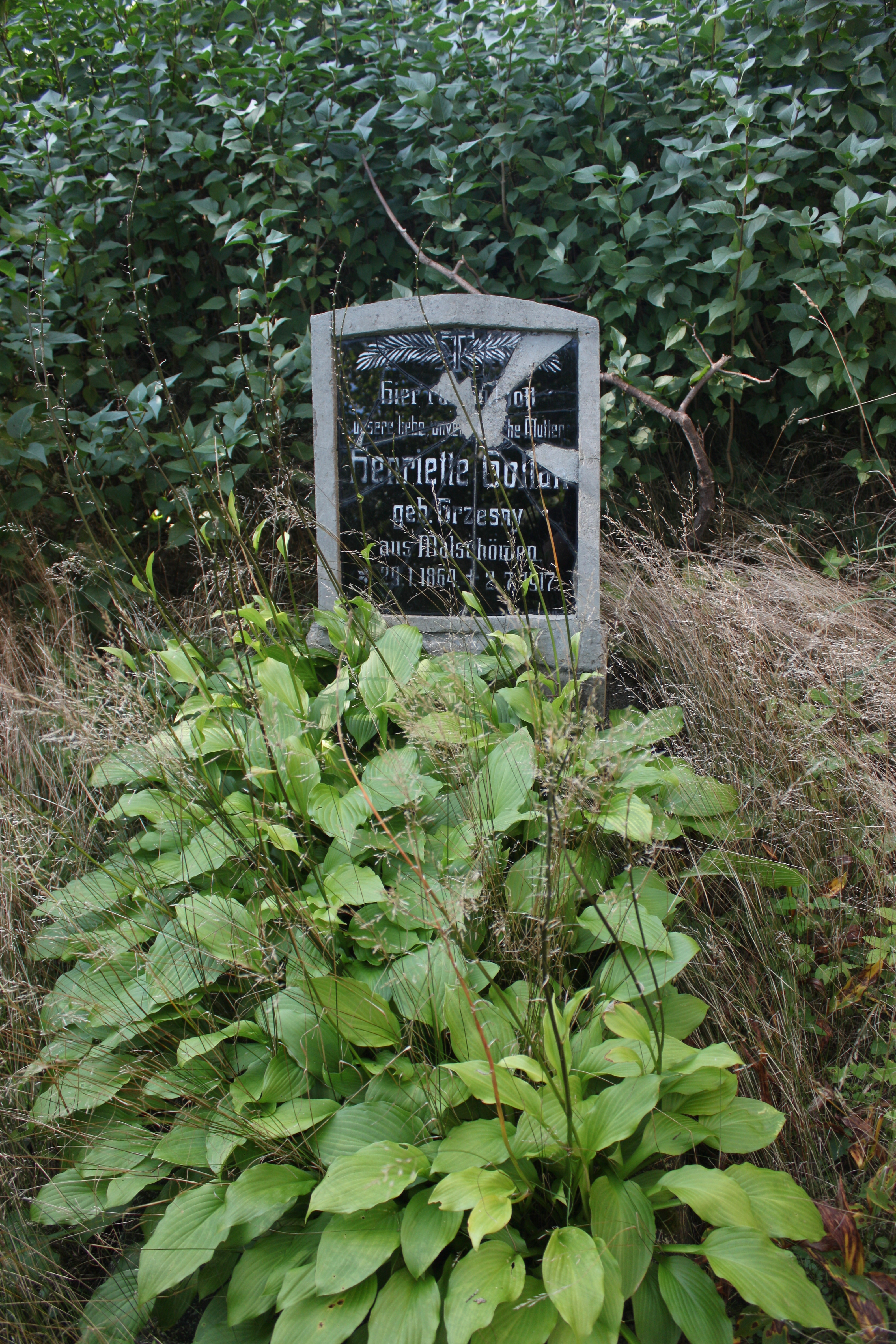 Lutheran church in Dźwierzuty and cemetery nearby.